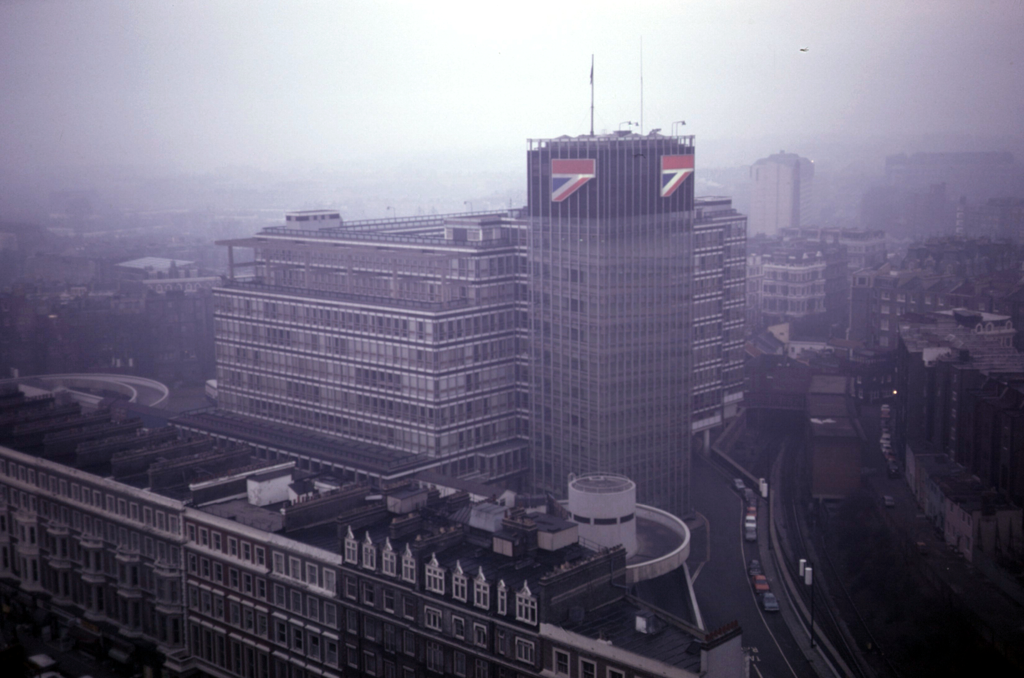 West London Air Terminal in February 1976. View from the Penta hotel.